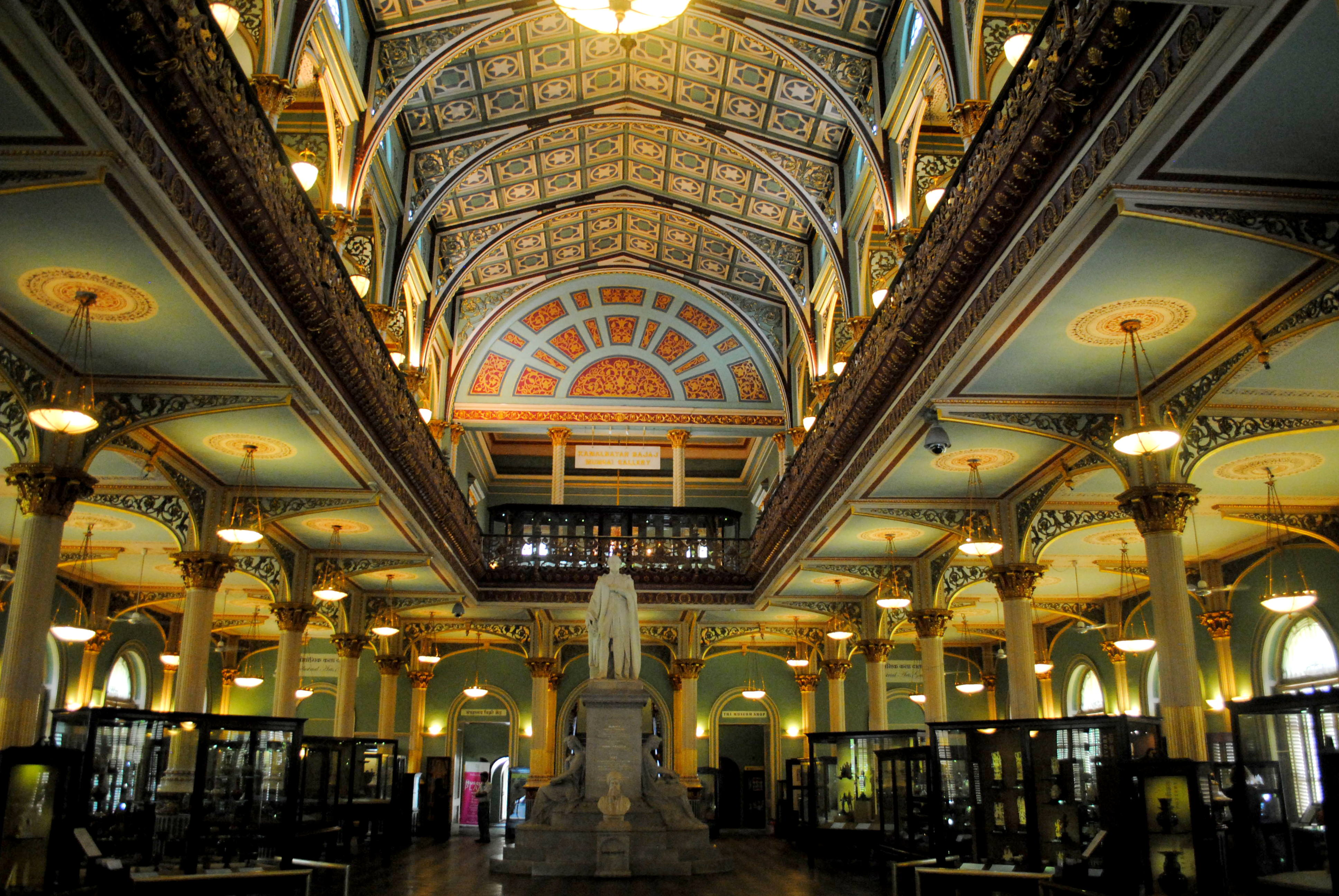 Victorian style of Dr. Bhau Daji Laad Museum